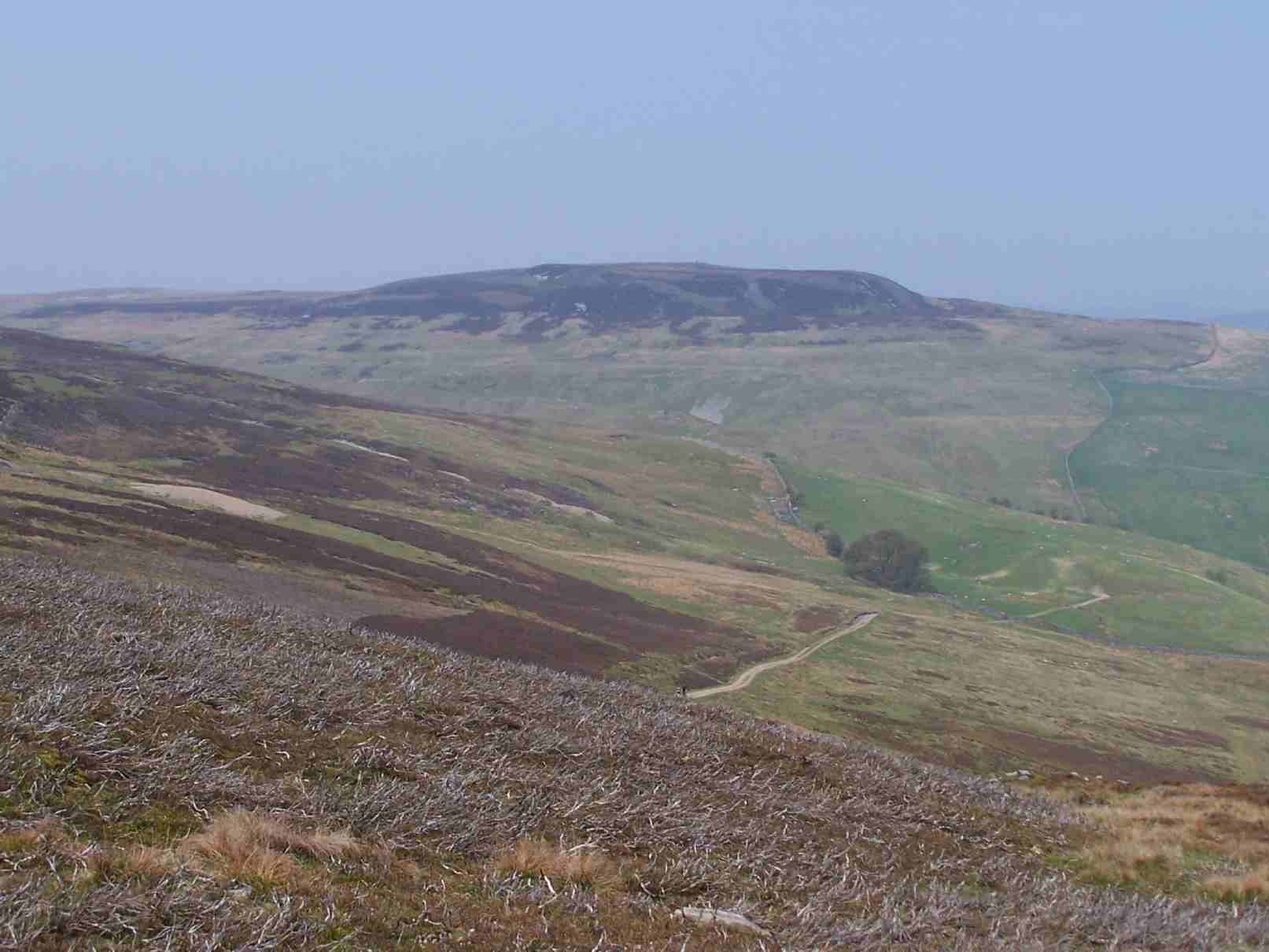 Personal photograph taken by Mick Knapton on May 9th 2006